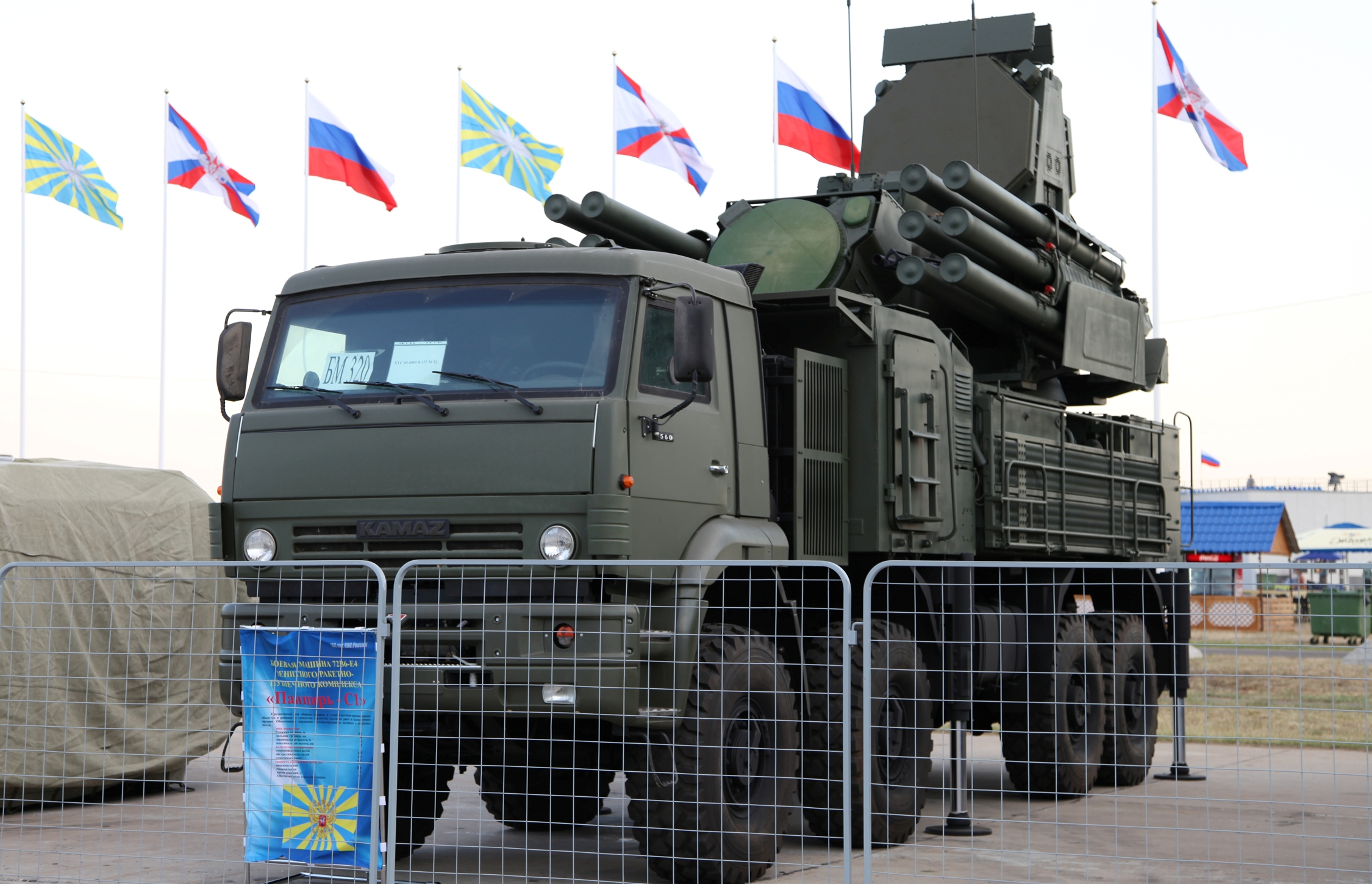 100th Anniversary of the Russian Air Force - Air defence systems of Russian original are shown.